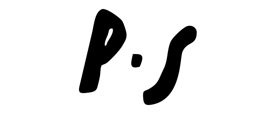 Signature Peter Schros from 1522 on tombstone Kuno von Walbrunn, Partenheim, ev. Parish Church